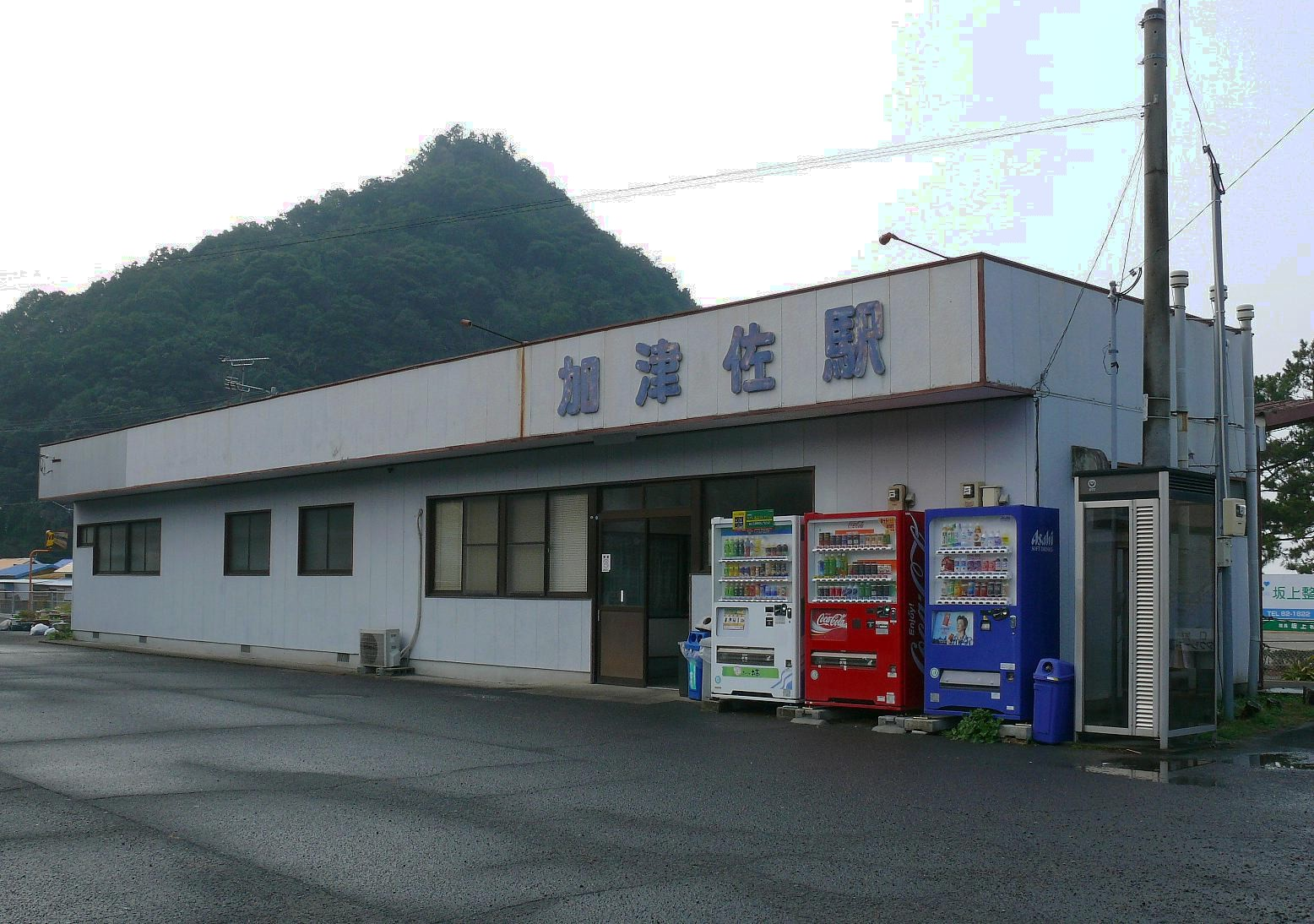 Shimabara Railway Kazusa Station (Minamishimabara City, Nagasaki, Japan)